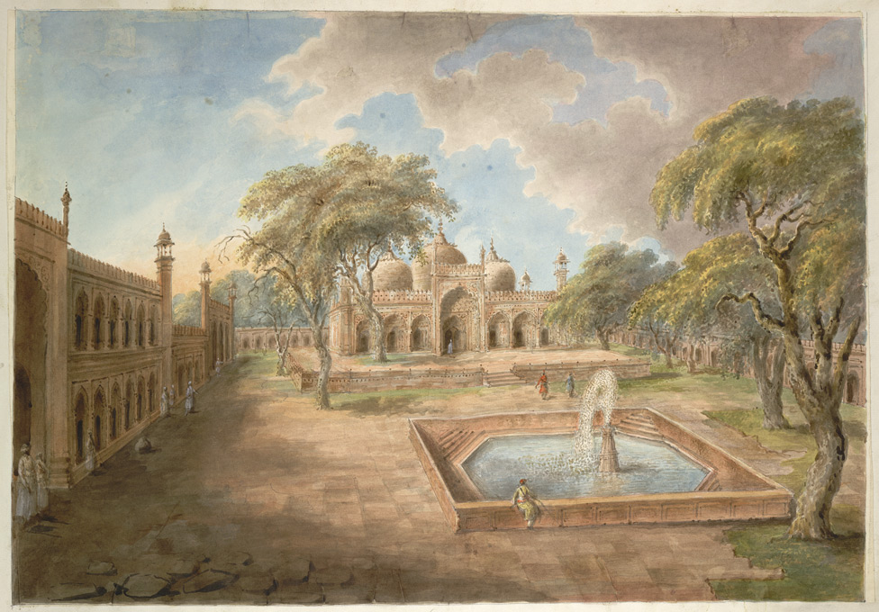 The courtyard of Ghazi al-Din Khan's Madrassah [and tomb] at Delhi [near Ajmeri Gate] looking west towards the mosque; a watercolor by Seeta Ram, 1814-15